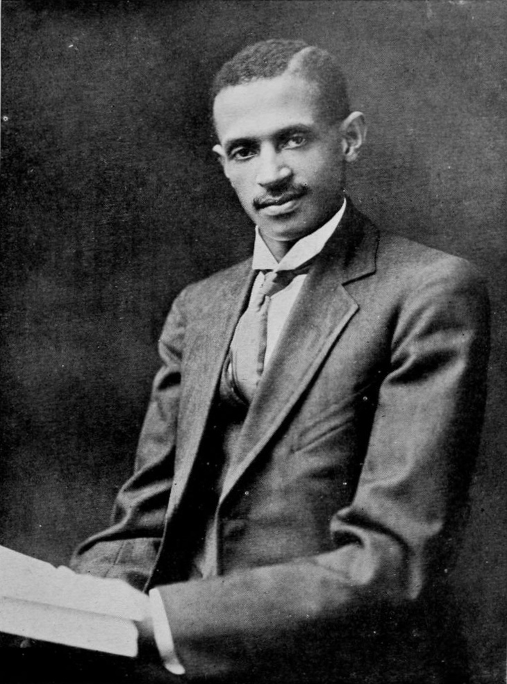 Dr. James Edward Shepard, educator